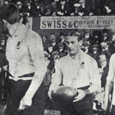 Herbert Moran Aust RU 1908